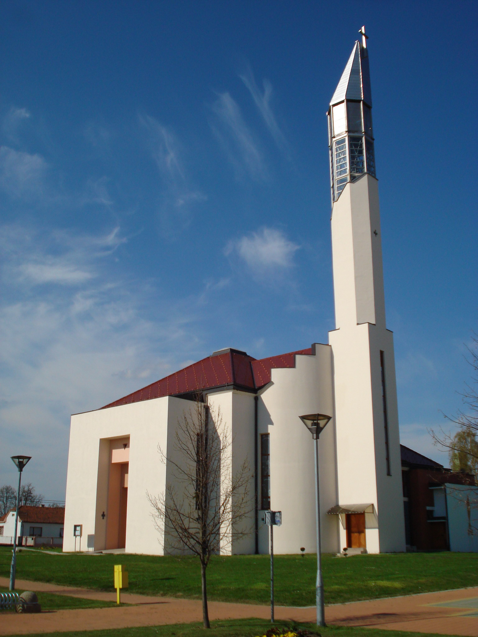 Saint Helena Parish Church in Šenkovec, Medjimurje County, Croatia